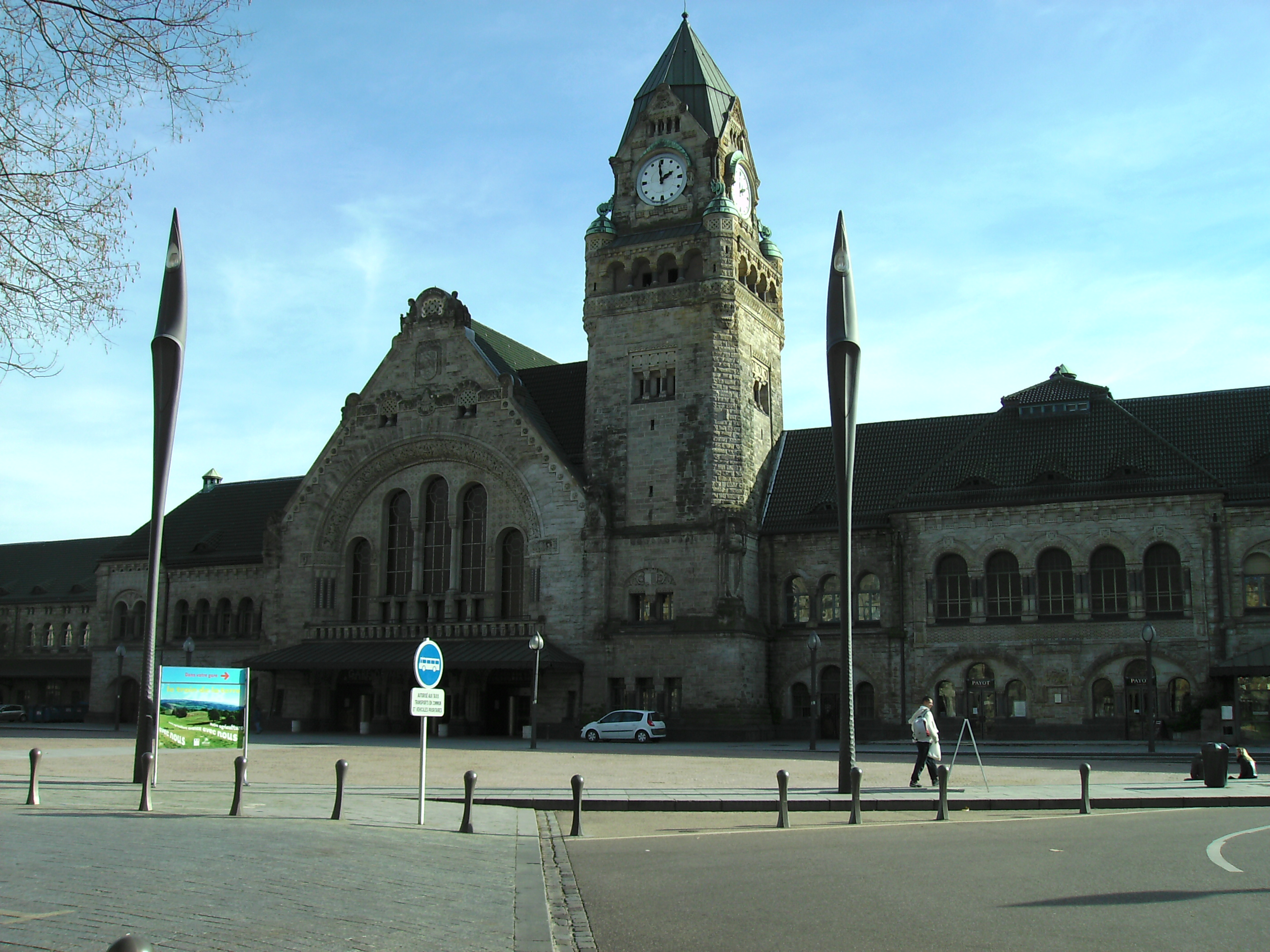 Gare de Metz-Ville, built between 1905 and 1908 by Jürgen Kröger; street lights designed by Philippe Starck.